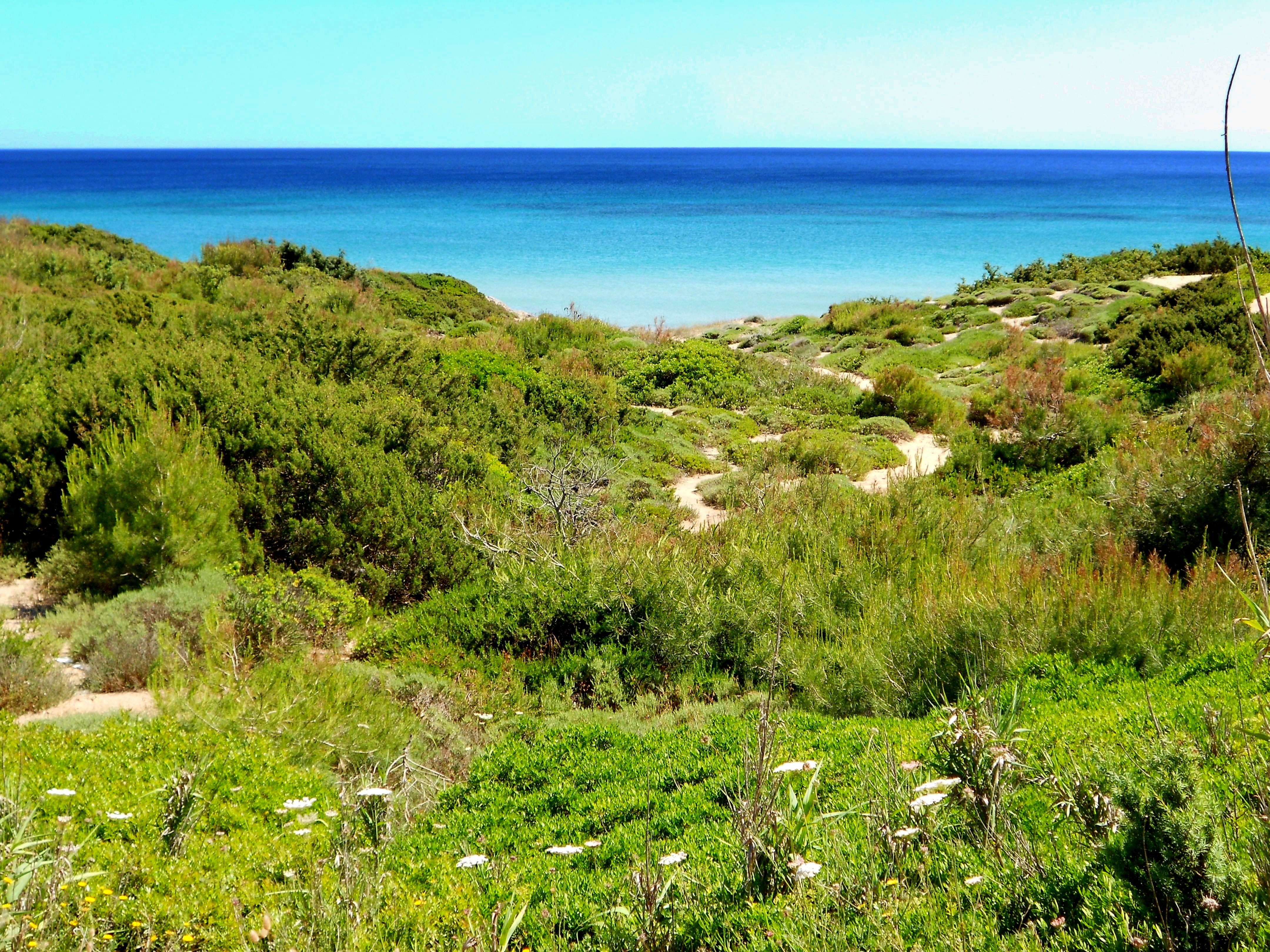 Campomarino di Maruggio's dunes